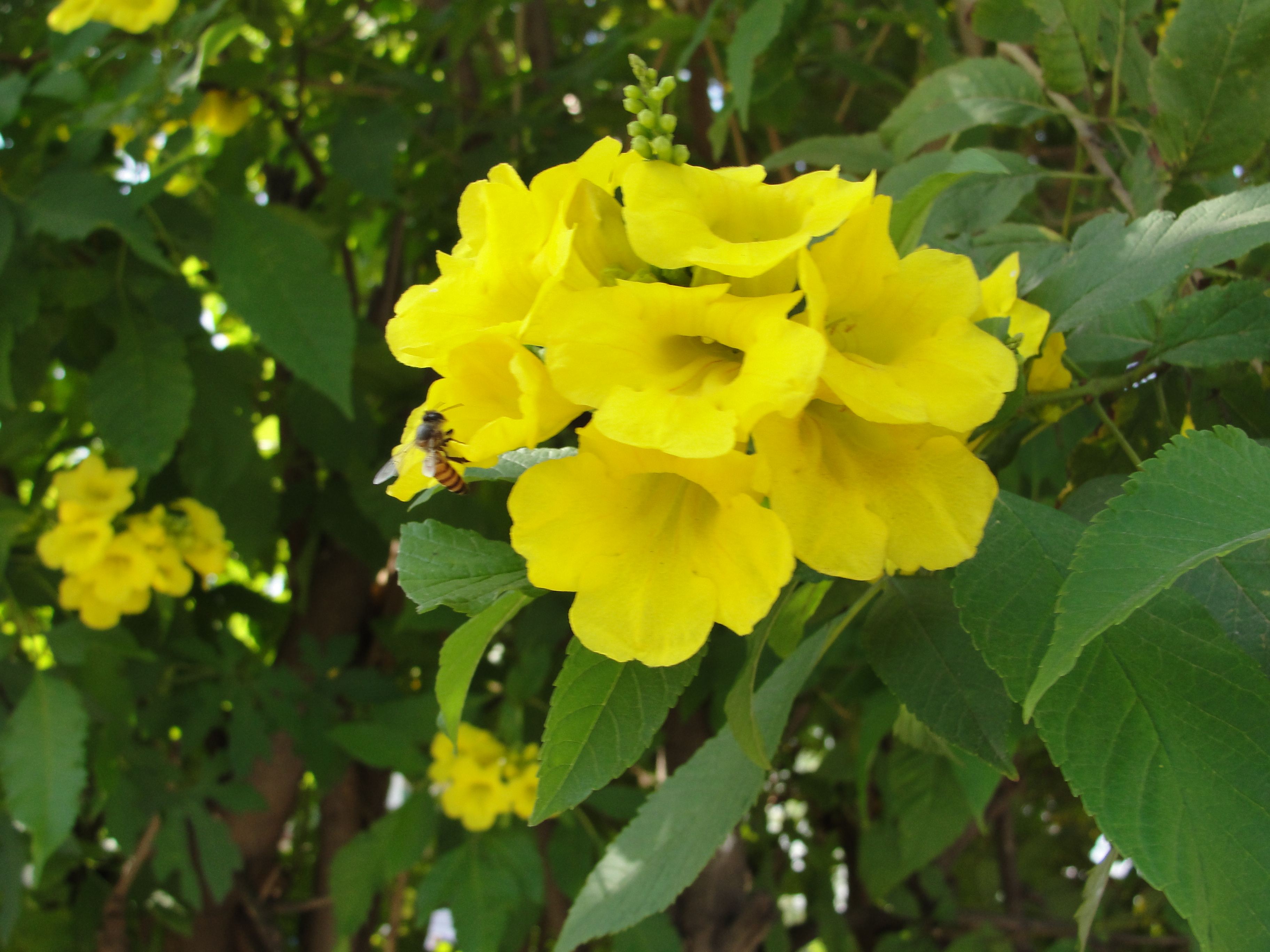 A close up of yellow flower.